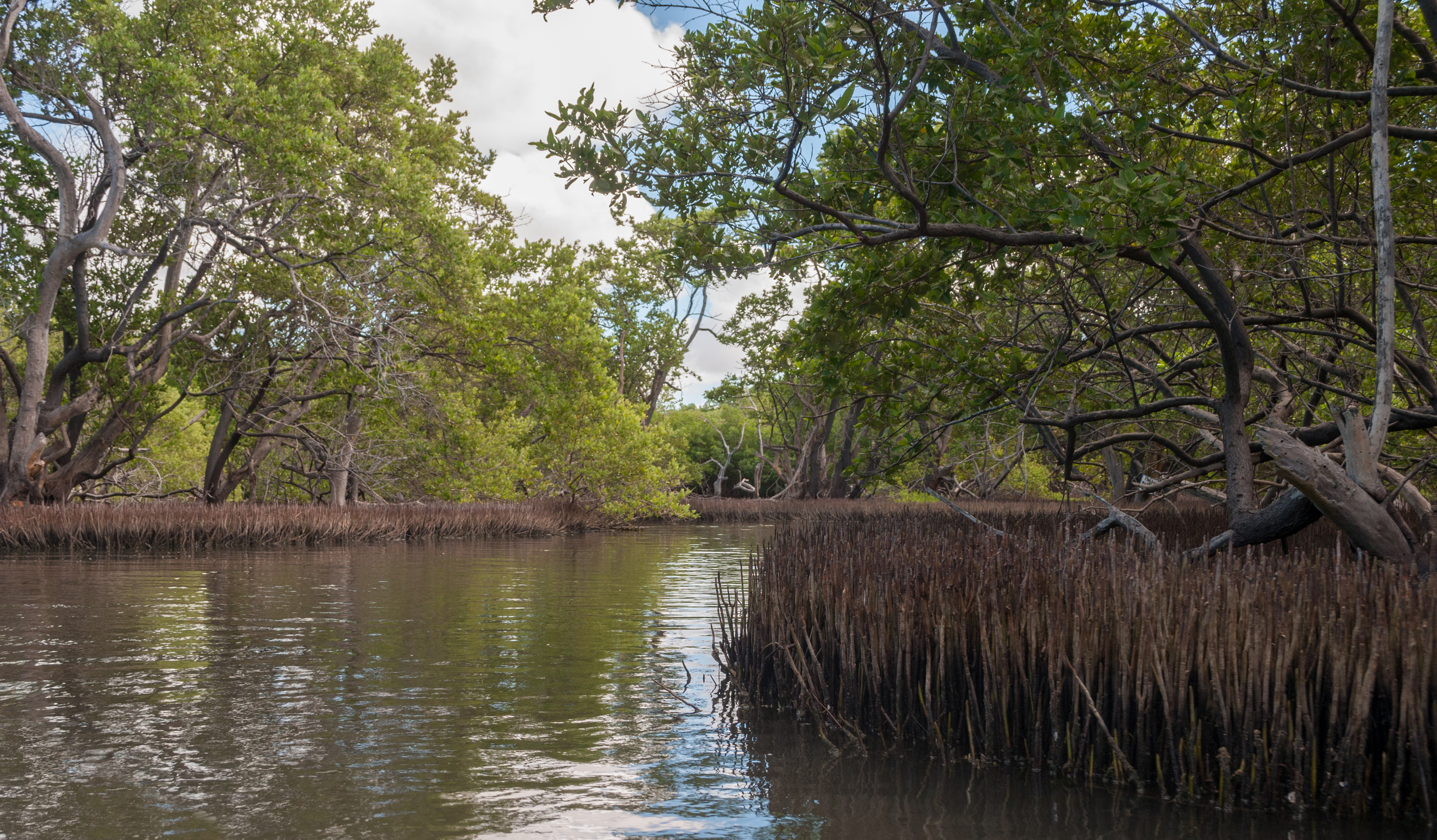 La Restinga Lagoon